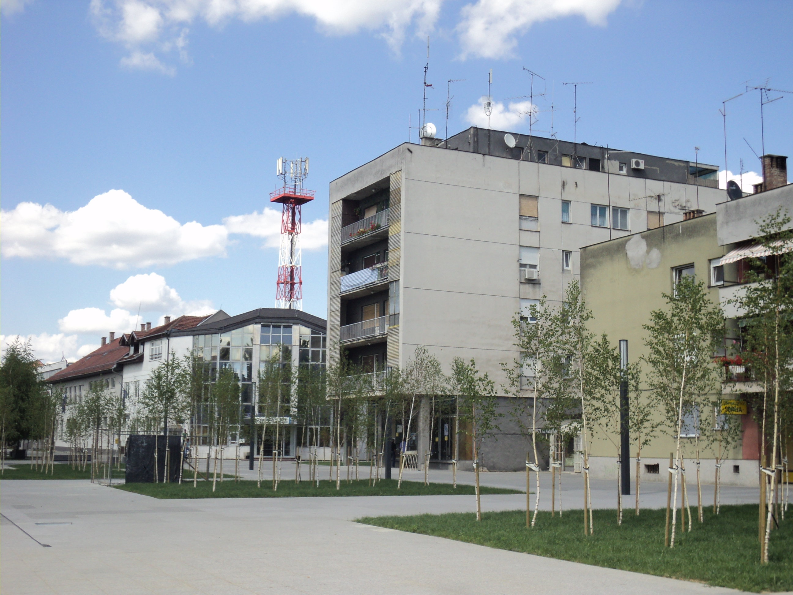 Center of Beli Manastir, Croatia.